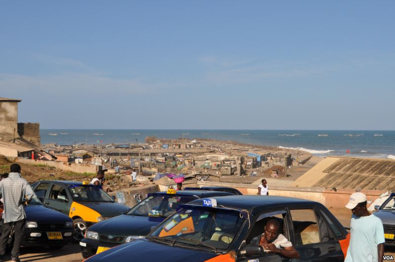 Taxis drivers wait for passengers near an beachfront slum in Accra's Jamestown. Confirmed to be a work of the VOA by the VOA bug in the corner.